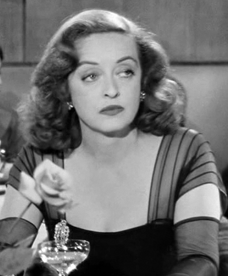 Cropped screenshot of Bette Davis from All About Eve.